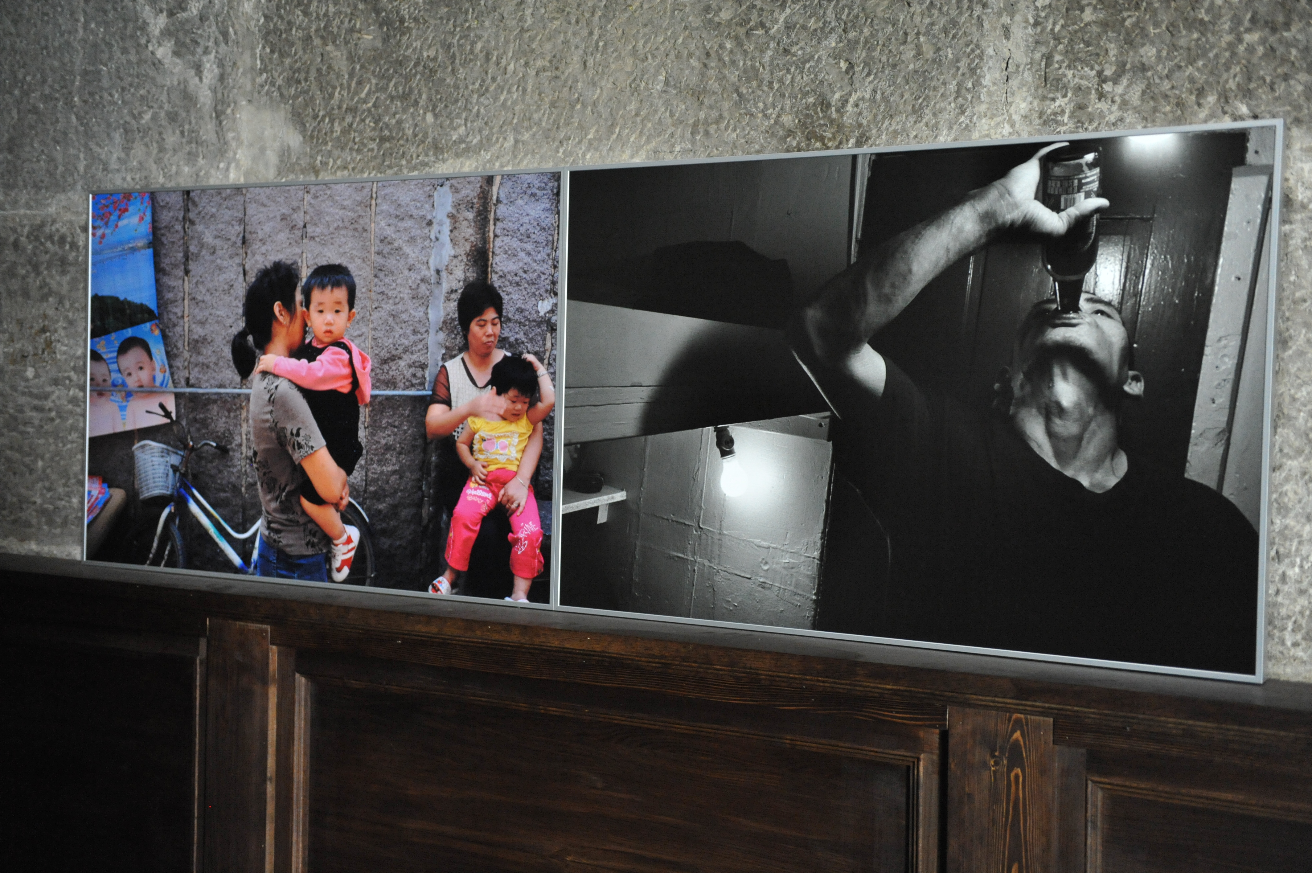 Chien-Chi Chang, China Town, 1992-2008